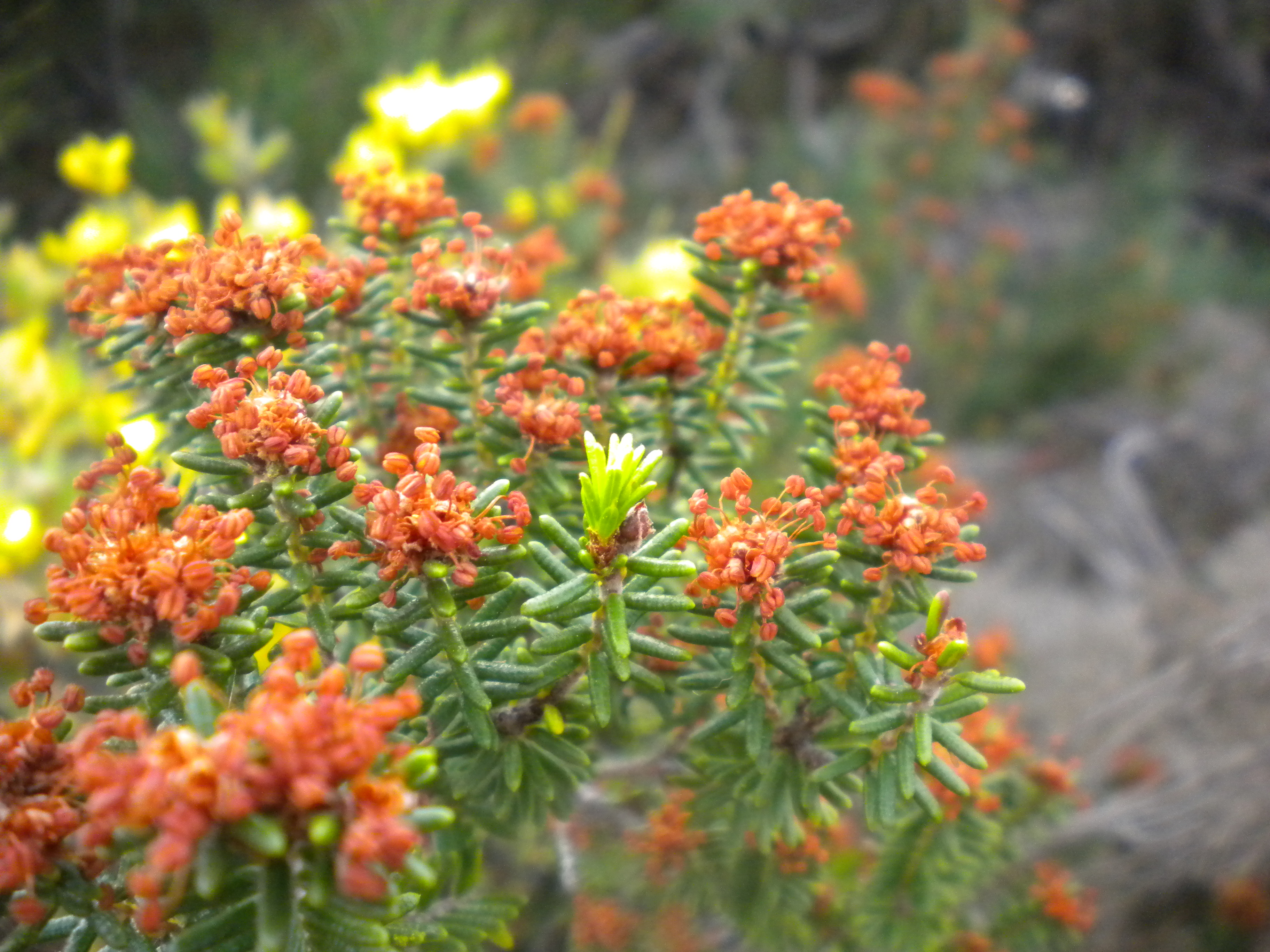 Corema album in the "Natural Park of Doñana" (Huelva, Spain). This is a photography of a Special Area of Conservation in Spain with the ID: ES0000024. Natura2000 entry, EEA entry